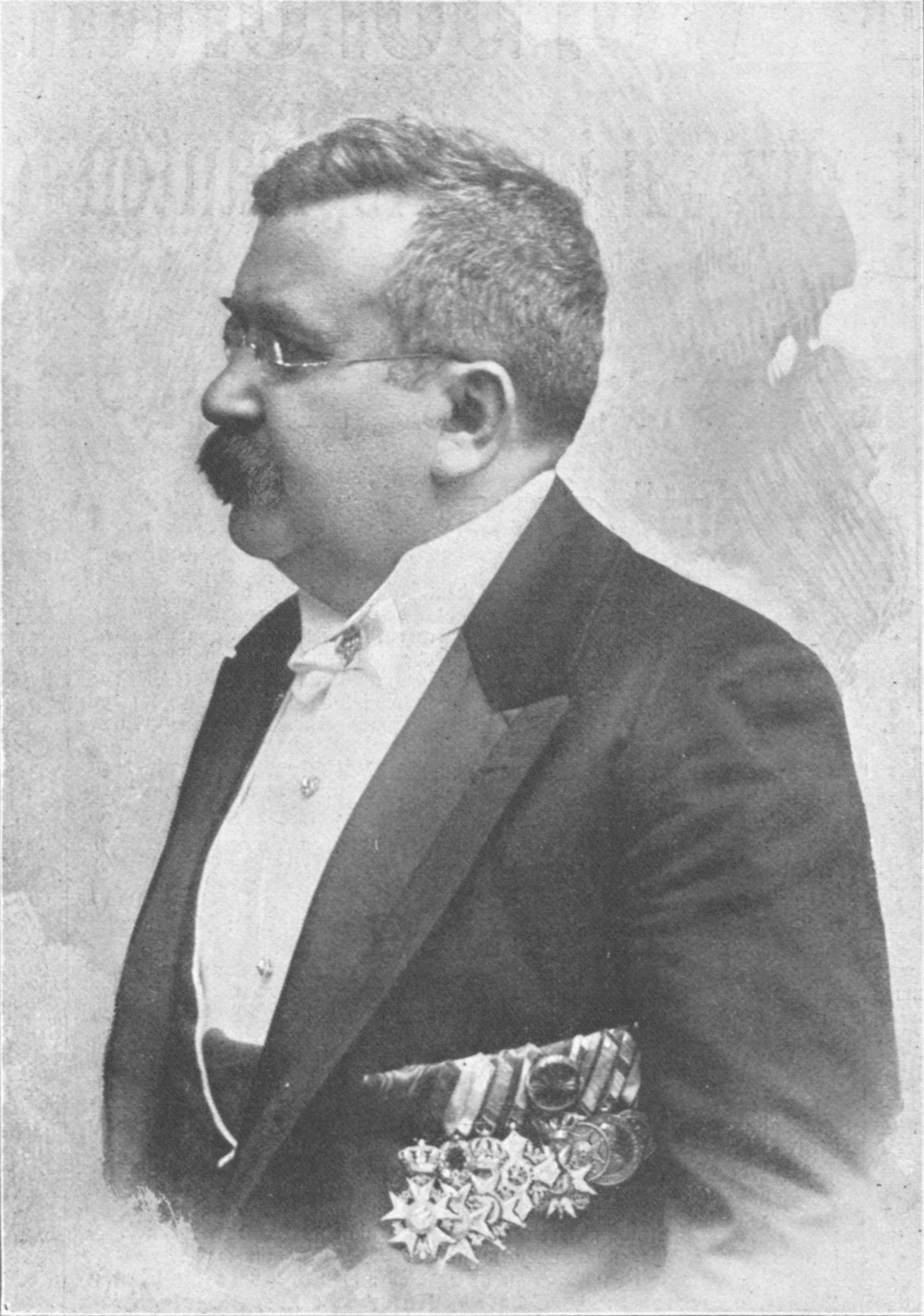 Charles Scolik (1854-1928), Austrian photographer